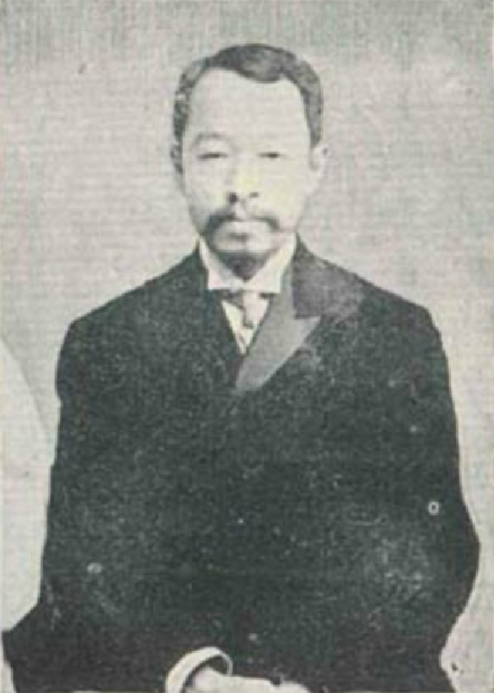 Park Yeong-hyo Portrait